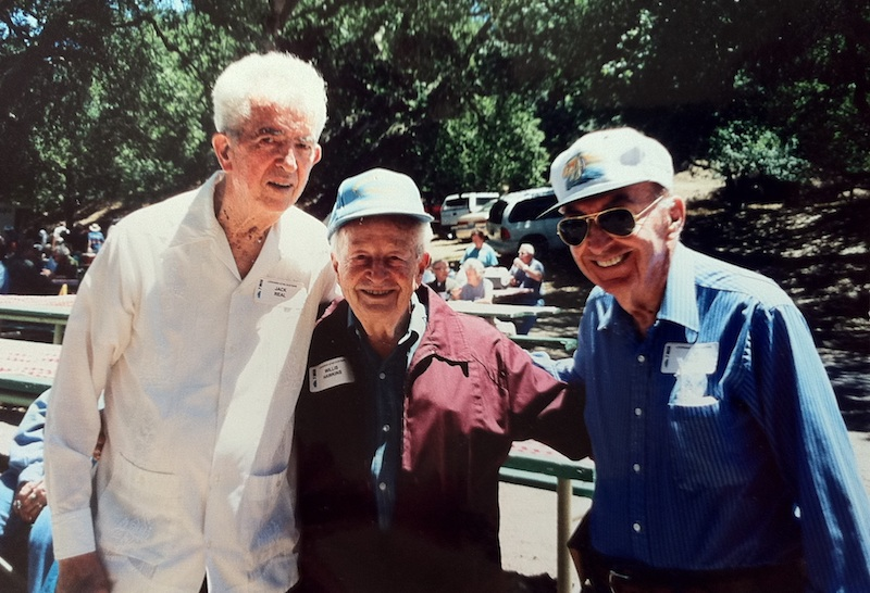 Joseph F. Ware, Jr. (right), with Jack Real (left) and Willis Hawkins (center) at a StarDusters gathering near Santa Maria, CA. Photo by Jennifer Ware